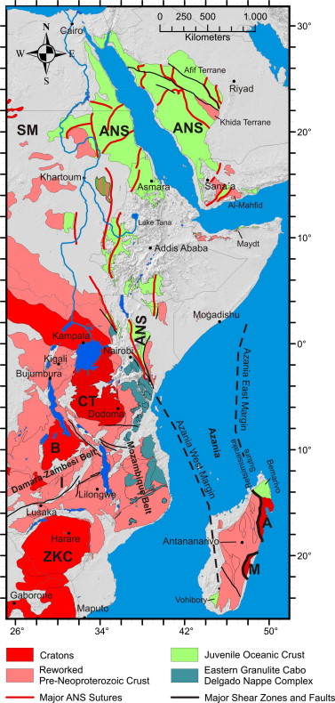 Distribution of crustal domains in the East African Orogen, SM Sahara Metacraton; CTB, Congo–Tanzania–Bangweulu Cratons; ZKC, Zimbabwe–Kalahari Cratons; I, Irumide Belt; A, Antogil Craton; M, Masora Craton; ANS, Arabian Nubian Shield